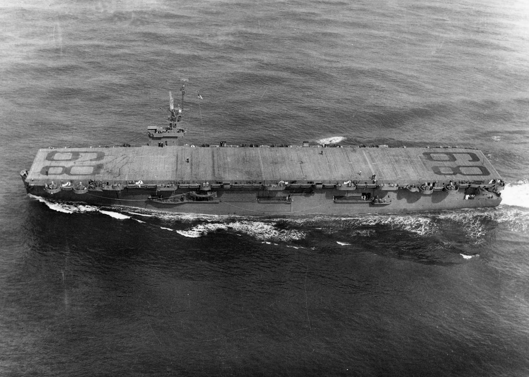 The U.S. Navy escort carrier USS Takanis Bay (CVE-89) underway on 8 May 1944. She had been commissioned on 15 April and was used as a training carrier, qualifying 2,509 pilots between May 1944 and August 1945.